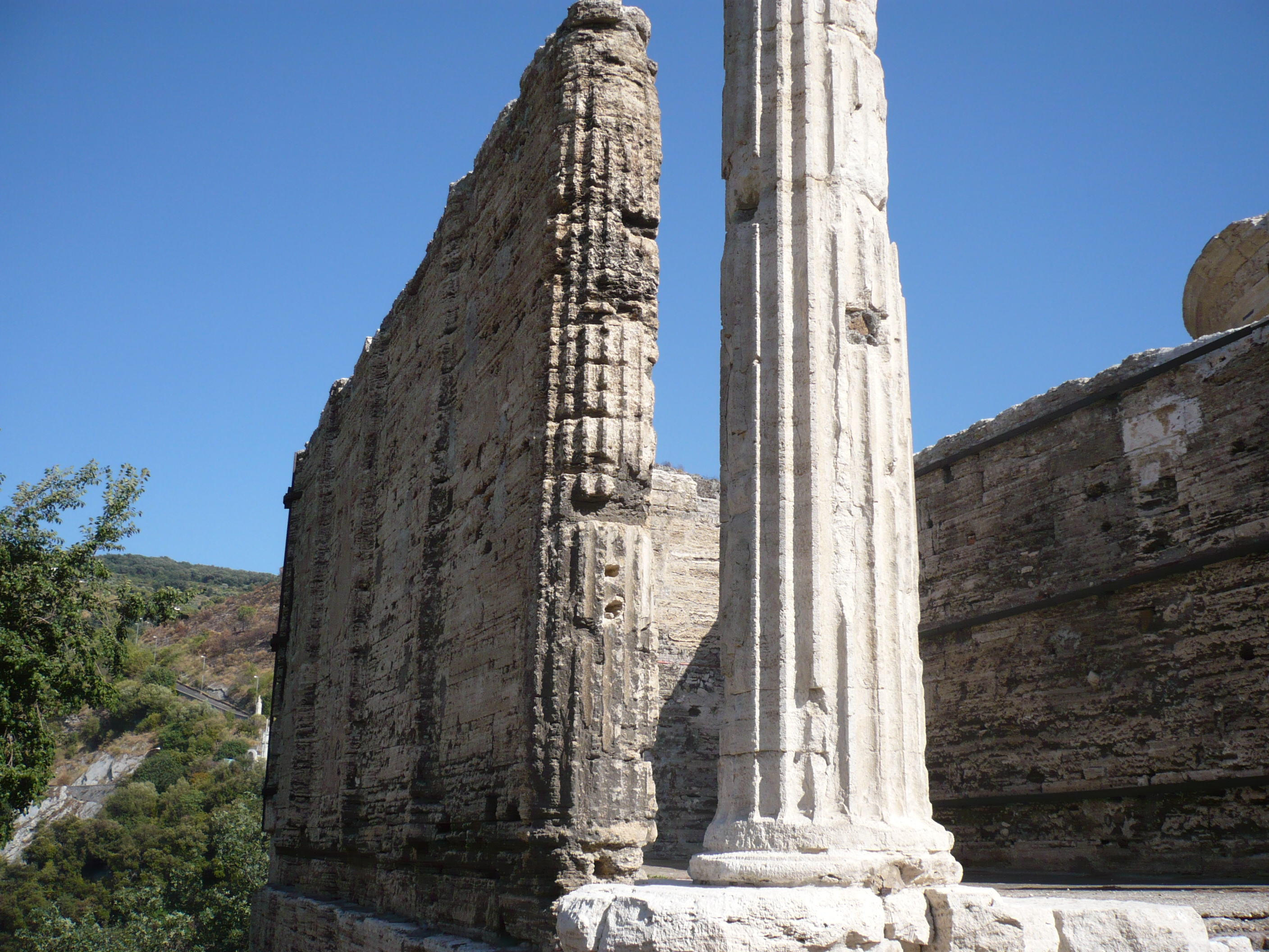 Detail from the Temple of the Sibyl in Tivoli, Italy.